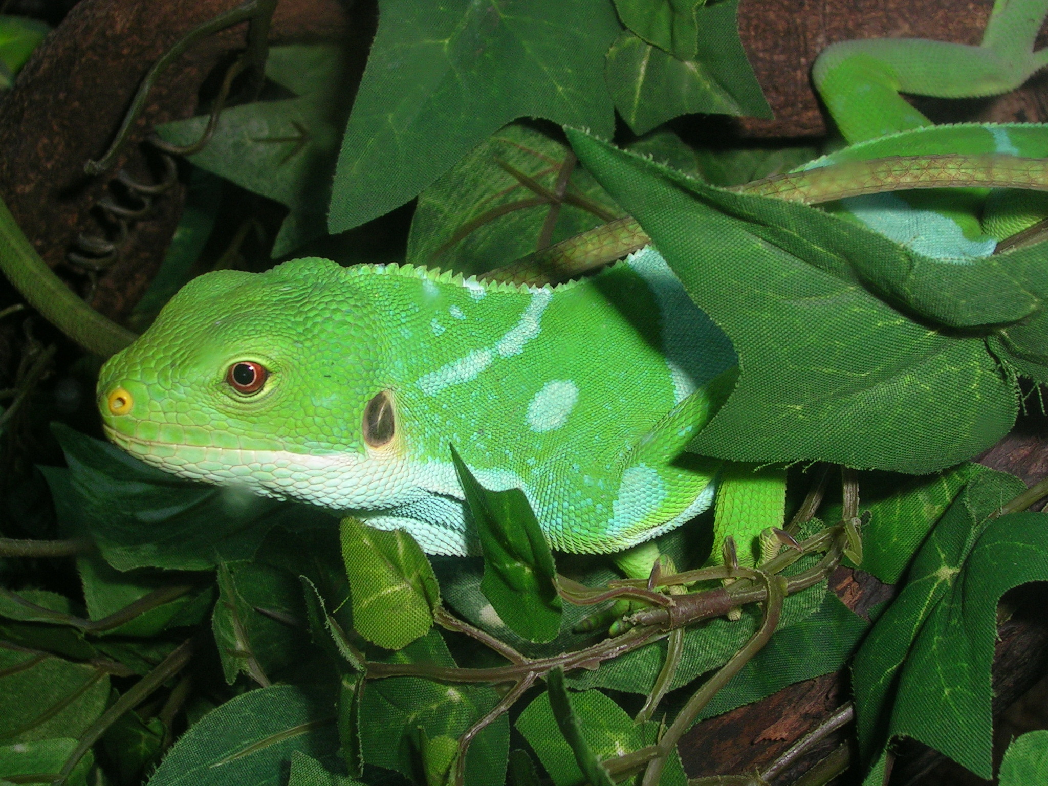 Brachylophus fasciatus photograph of specimen from Oslo ReptilPark